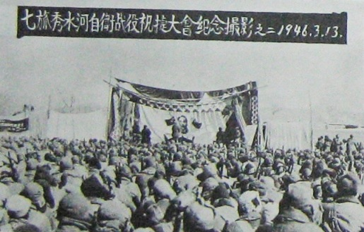 Communist troops celebrated their victory in Battle of Xiushui He.中国共产党领导的东北民主联军在庆祝他们击败国民党军队取得秀水河战役的胜利。